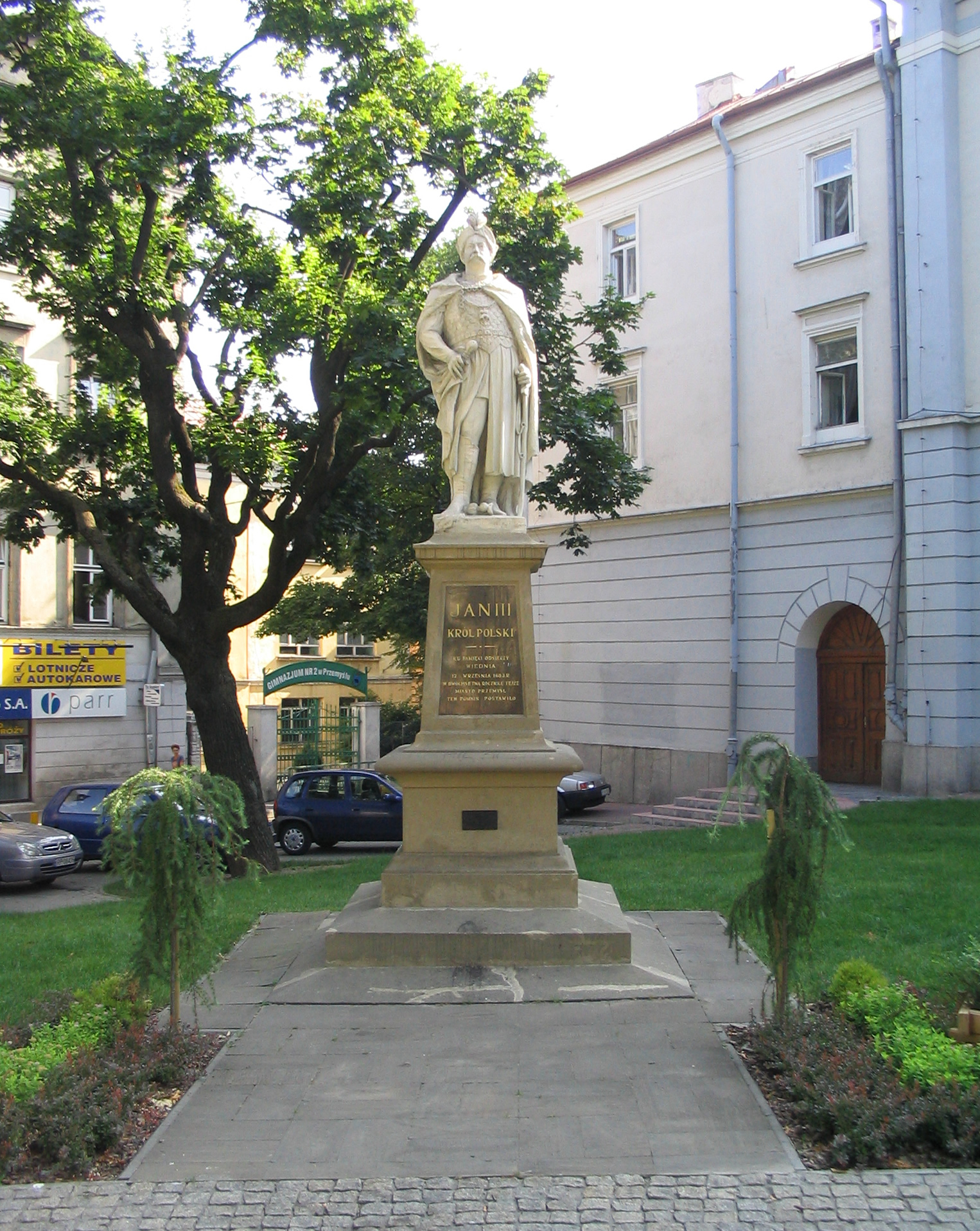 Jan III Sobieski monument in Przemyśl Author: Goku122